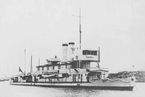 Japanese Gunboat "Toba" at Yantze River.